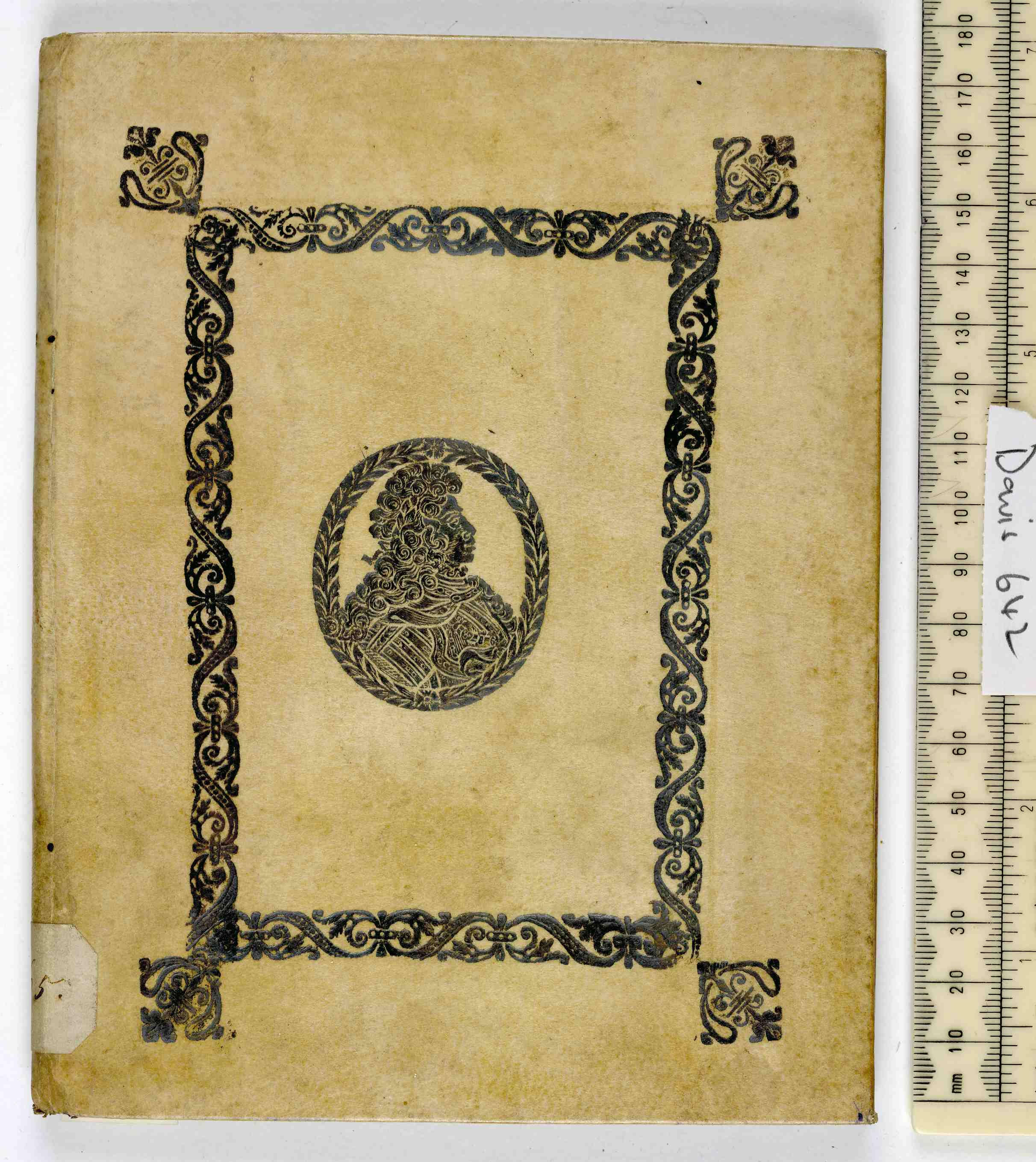 Style: Panel design; Caption: Upper cover; Colour: White / cream; Edge: Black